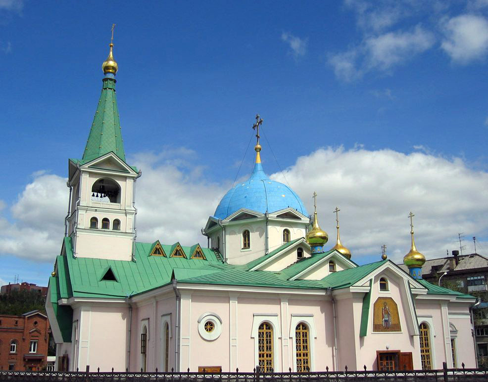 Ascension Church in Novosibirsk